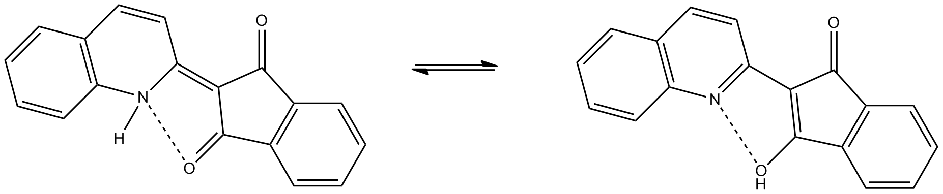 Structure of the tautomers of quinophthalone. Quinophthalone is the structural basis for quinophthalone dyes such as quinoline yellow.